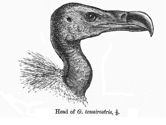 Slender-billed Vulture (Gyps tenuirostris).